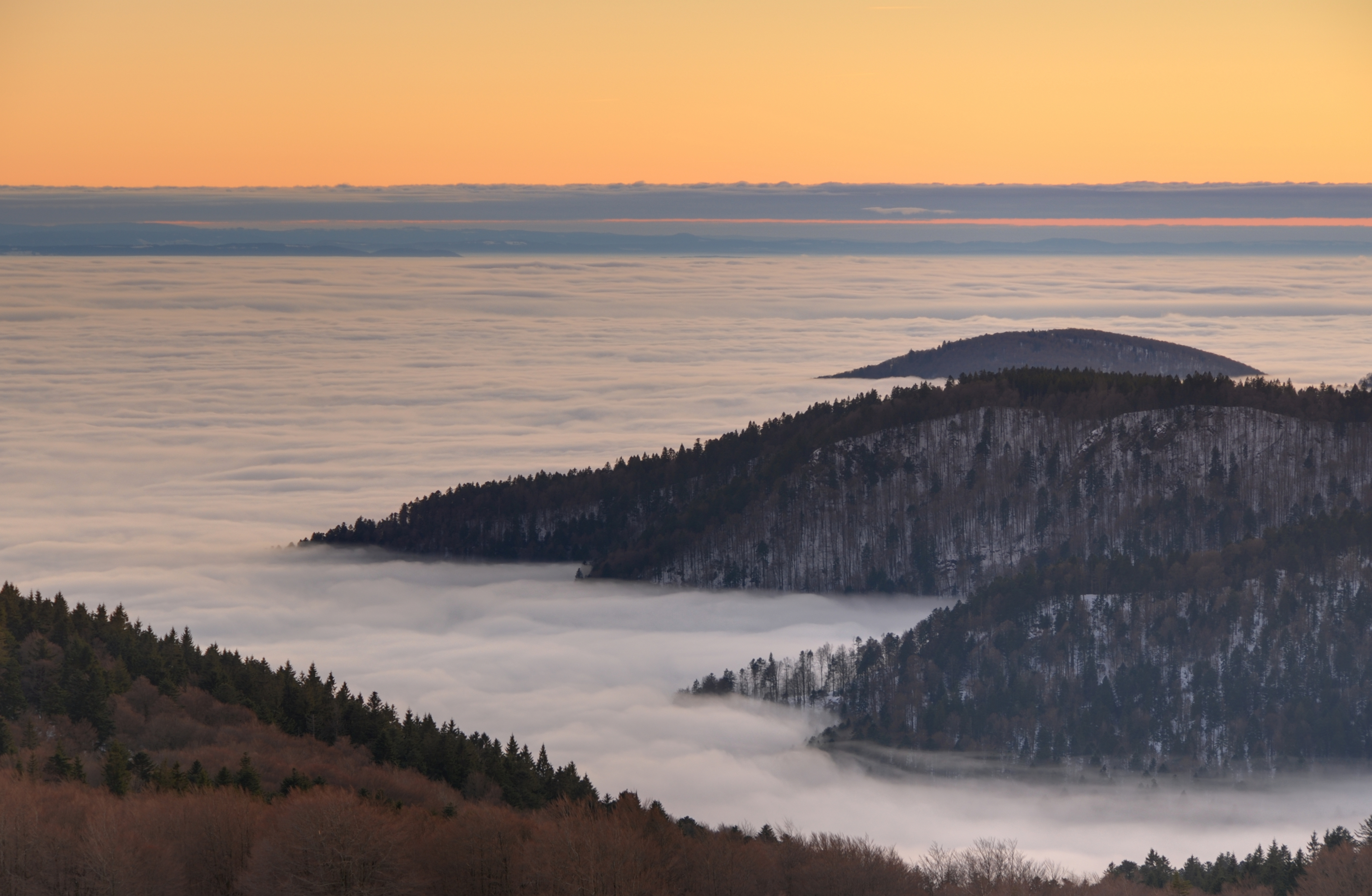 Fog in the valley of Savoureuse (Territoire de Belfort; eastern France) at sunset, seen from the summit of the Ballon d'Alsace